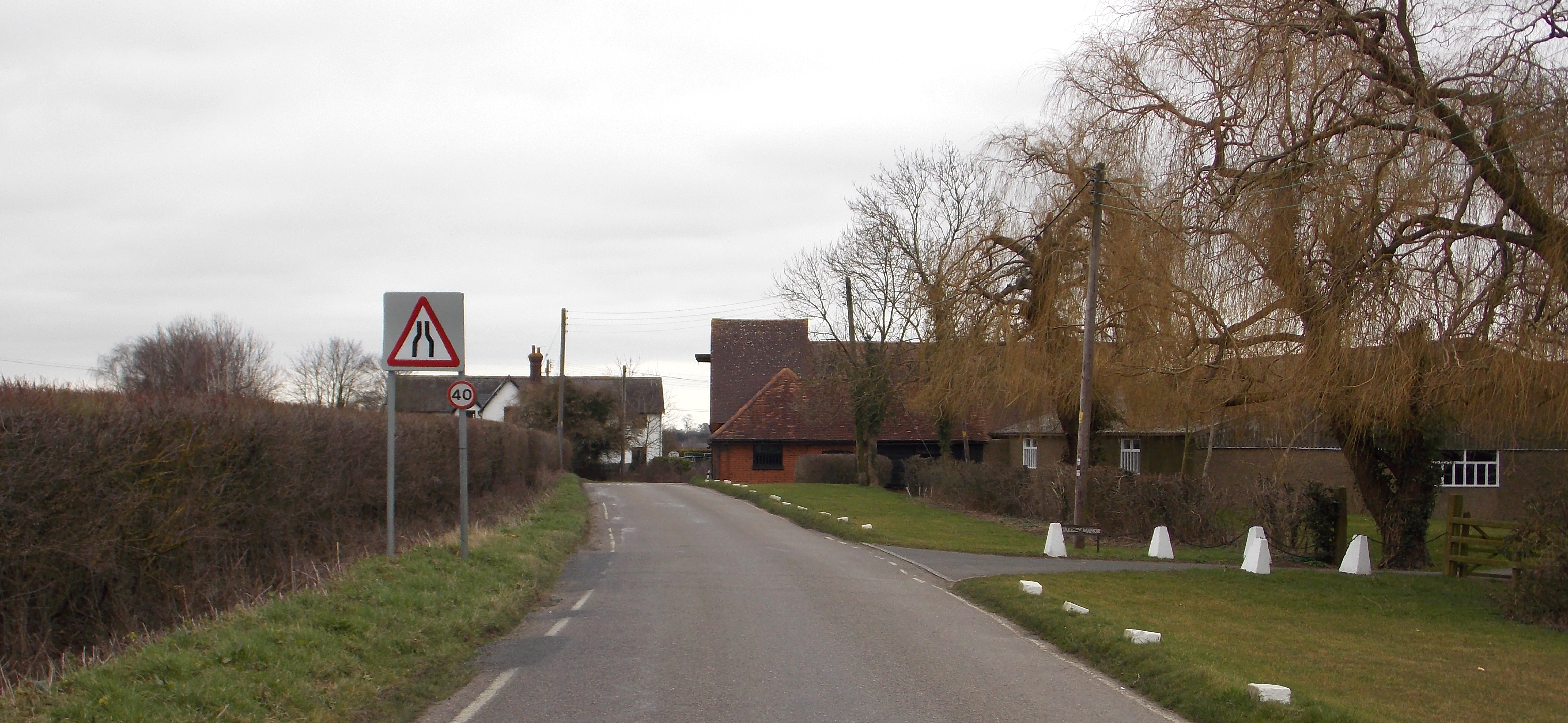 Epping Upland, Essex, England - Upland Road looking east towards Takeleys, a Grade II timber framed house